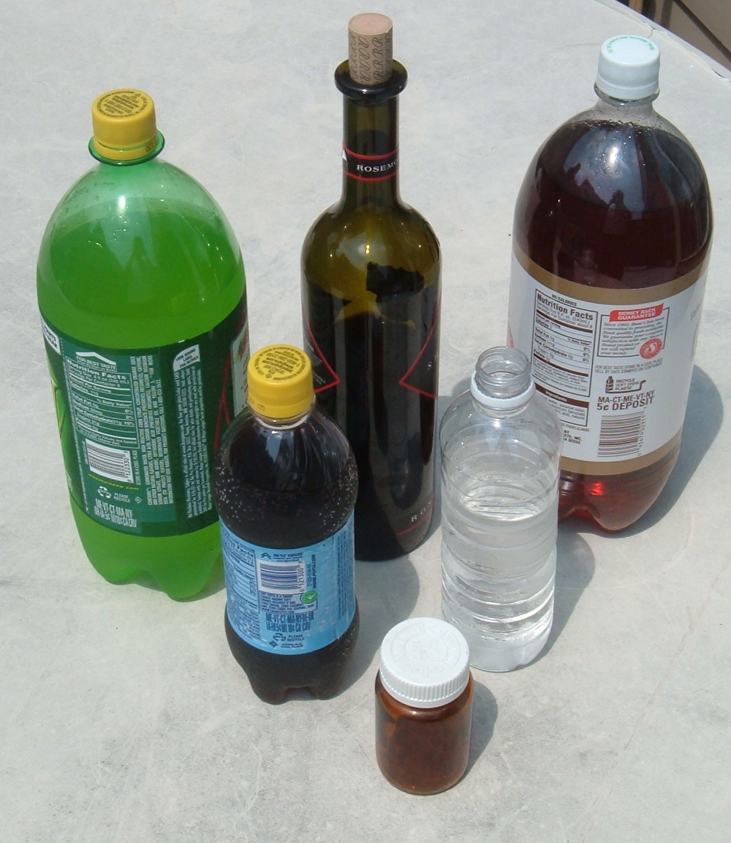 Six bottles of various sizes. One of a series of common objects I photographed in the summer of 2005 to illustrate Basic English picture wordlist. --agr 21:08, 3 August 2005 (UTC)